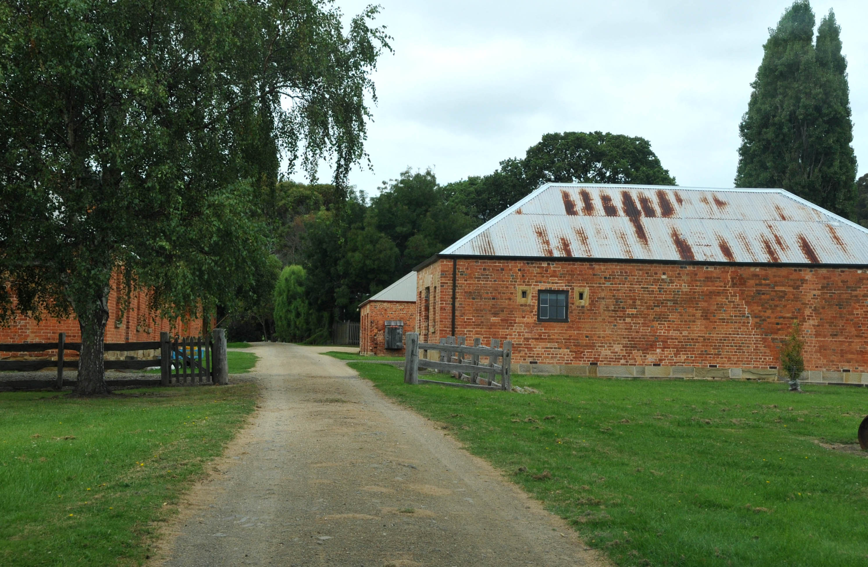 NORFOLK BAY CONVICT STATION ALONG THE TRAIL TO THE COAL MINES; MADE OF SO-CALLED CONVICT BRICKS; NOW USED AS A MOTEL; SEE "COAL MINES HISTORIC SITE" ON WIKIPEDIA